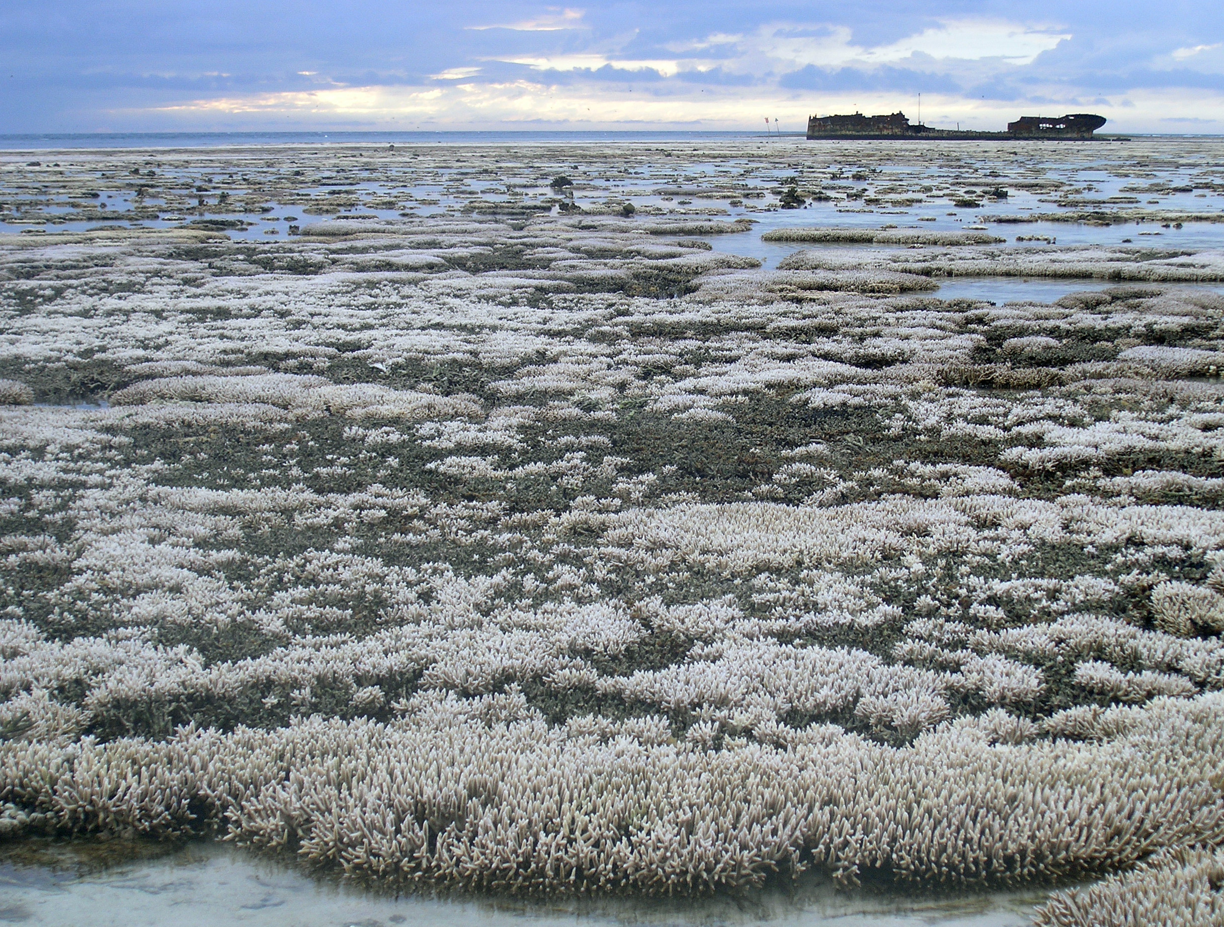 A major coral bleaching event took place on this part of the Great Barrier Reef in Australia. (Photo courtesy of Oregon State University)